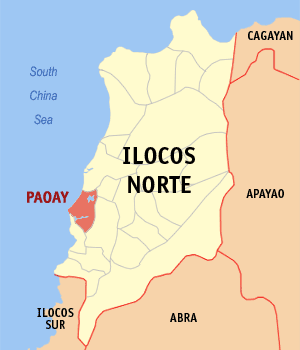 Map of Ilocos Norte showing the location of Paoay